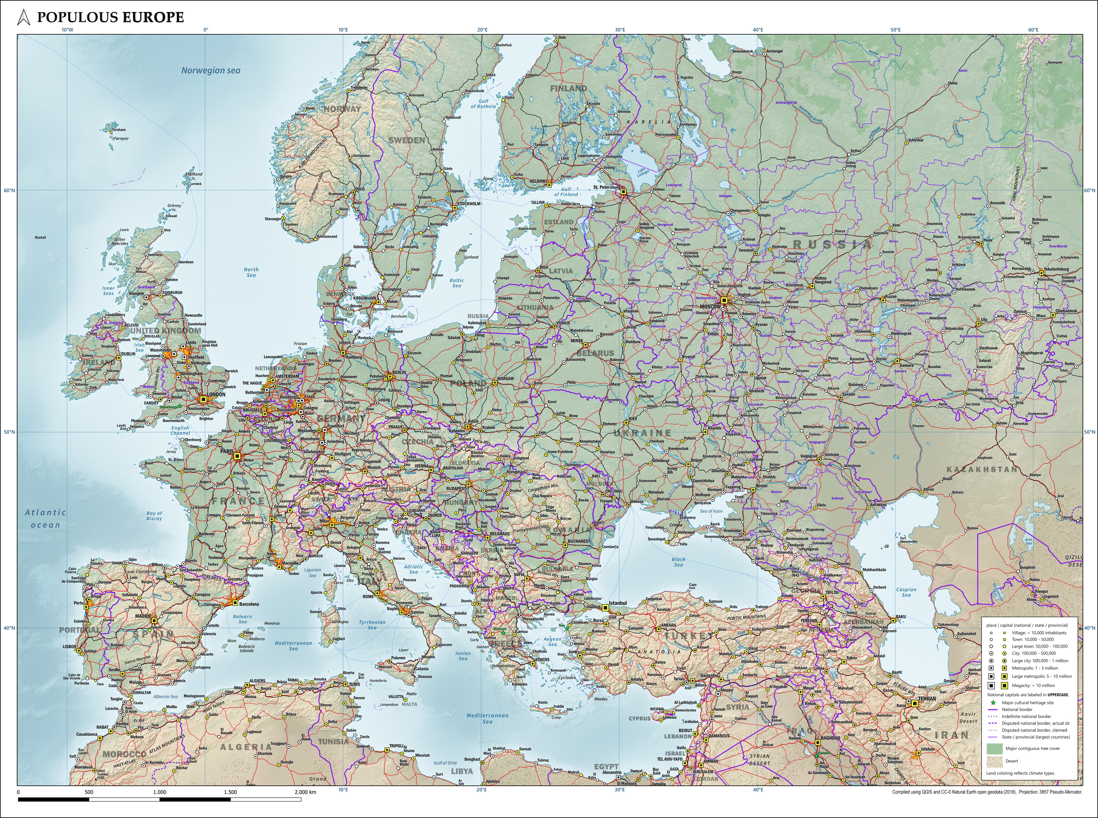 Map of the most populous part of Europe, showing physical, political and population characteristics, in Mercator projection, with legend, as per 2018. Compiled using QGIS and CC-0 Natural Earth geodata.